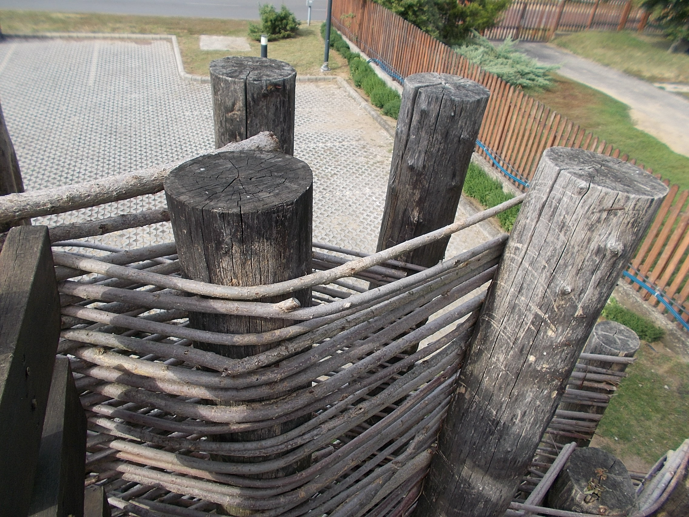 Bathory Castle (waxworks exhibit, conference room, Renaissance Lapidary, medieval restaurant). - Vár Street, Nyírbátor, Szabolcs-Szatmár-Bereg County, Hungary.